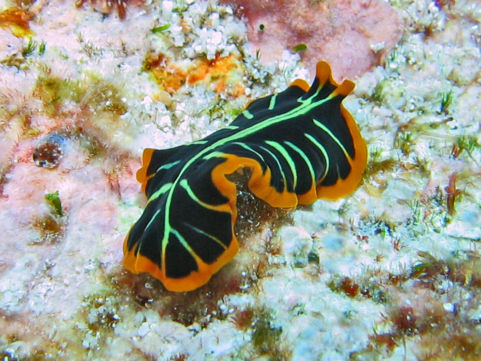 Pseudoceros dimidiatus. Rangiroa, Polynesia